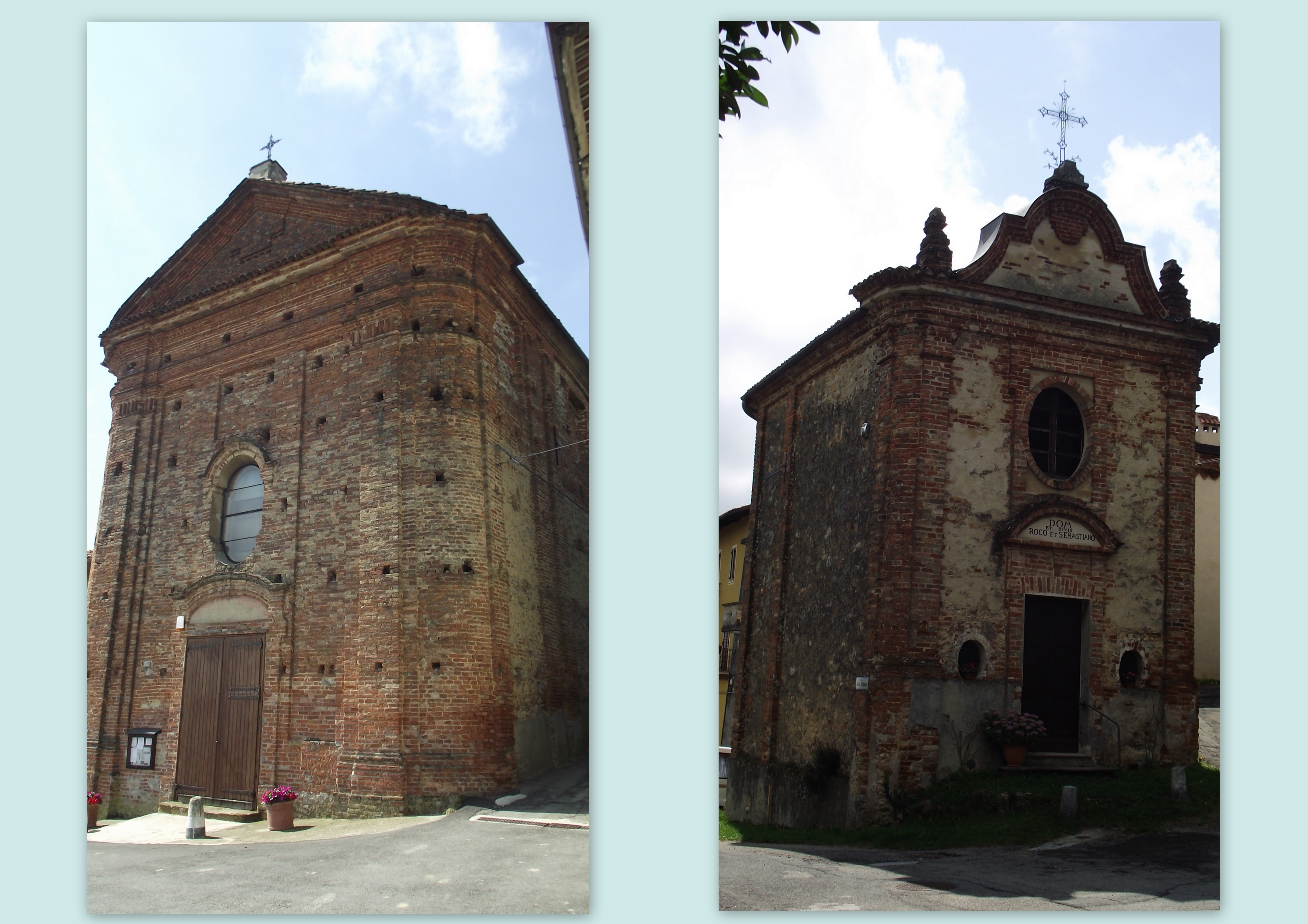 church of schierano